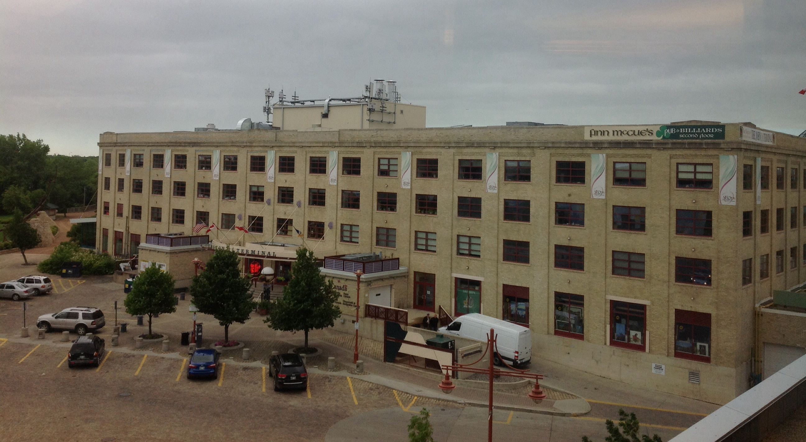 Johnston Terminal Building, originally the National Cartage Building, constructed 1928-1930 as a cold storage warehouse, used as a warehouse until 1977. A scale model of the Countess of Dufferin can be found on the first floor.